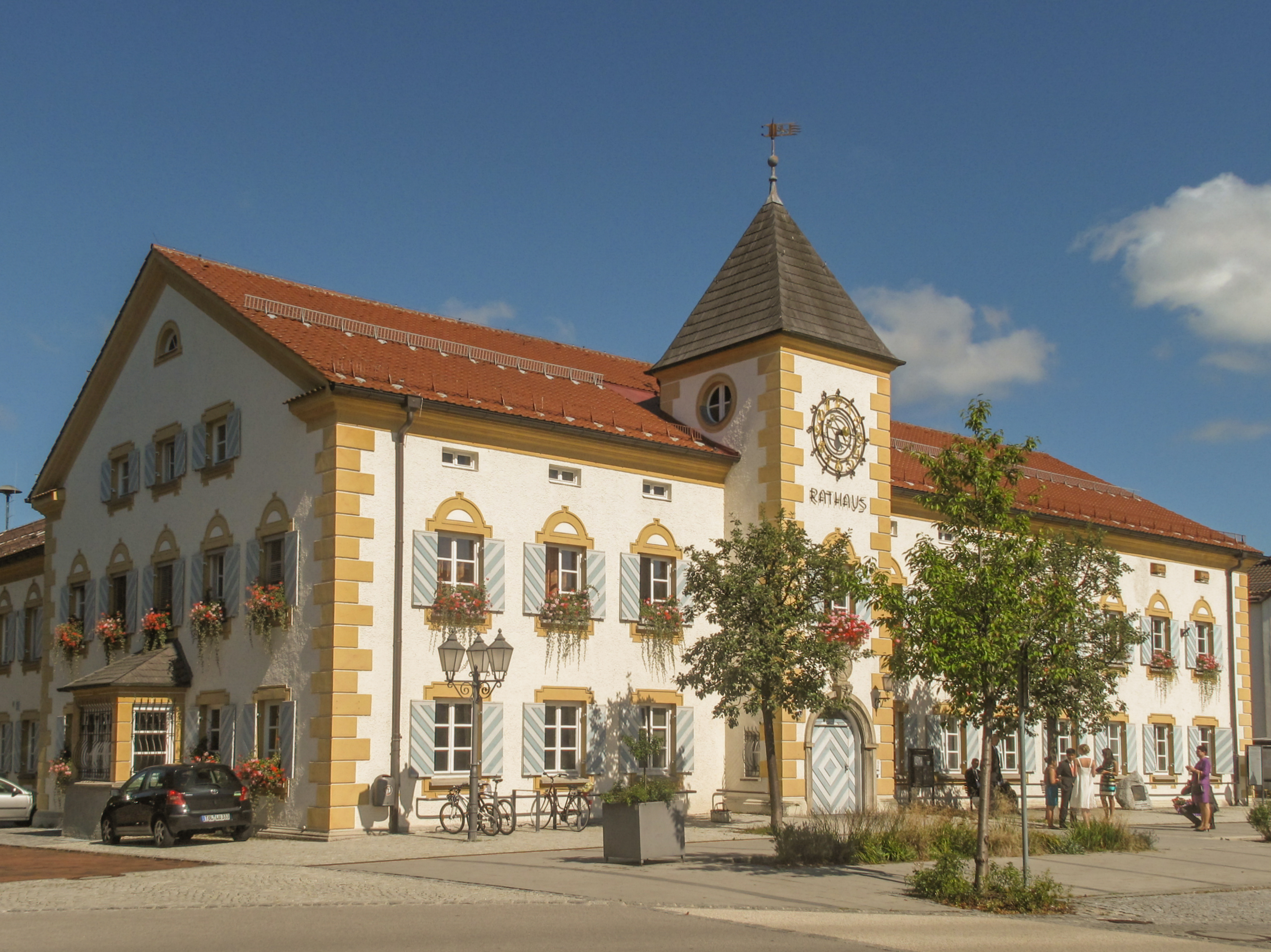 Geretsried, townhall